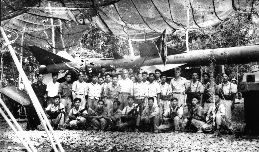 Photo taken in the spring of 1965, the anti-aircraft training center in Vietnam. Teachers and students - under this name it is listed in the Central Museum of the Armed Forces in Vietnam. Photo sent by Nikolai Kolesnik .